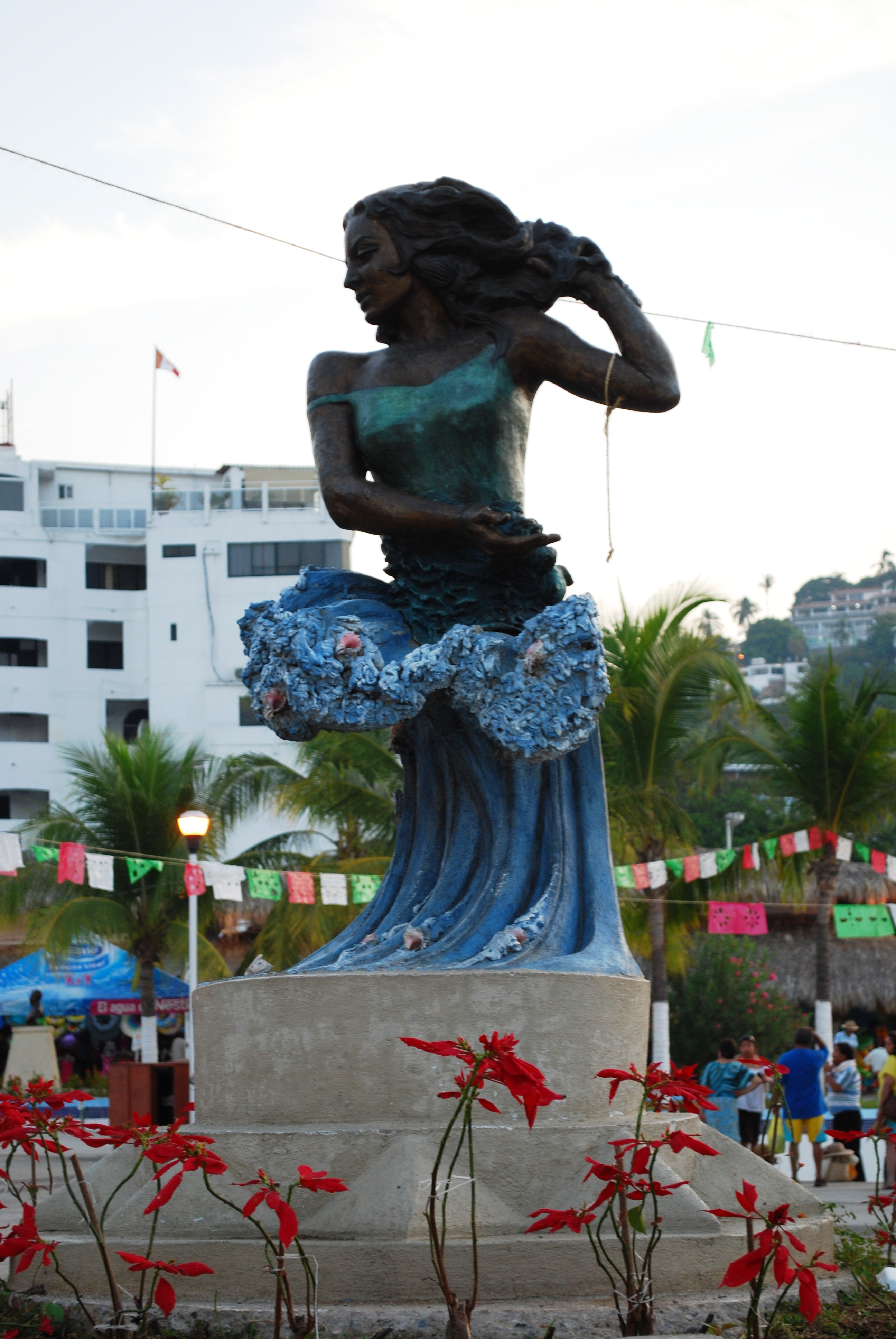 Statue by unknown author at Playa Caletilla, Acapulco, Mexico